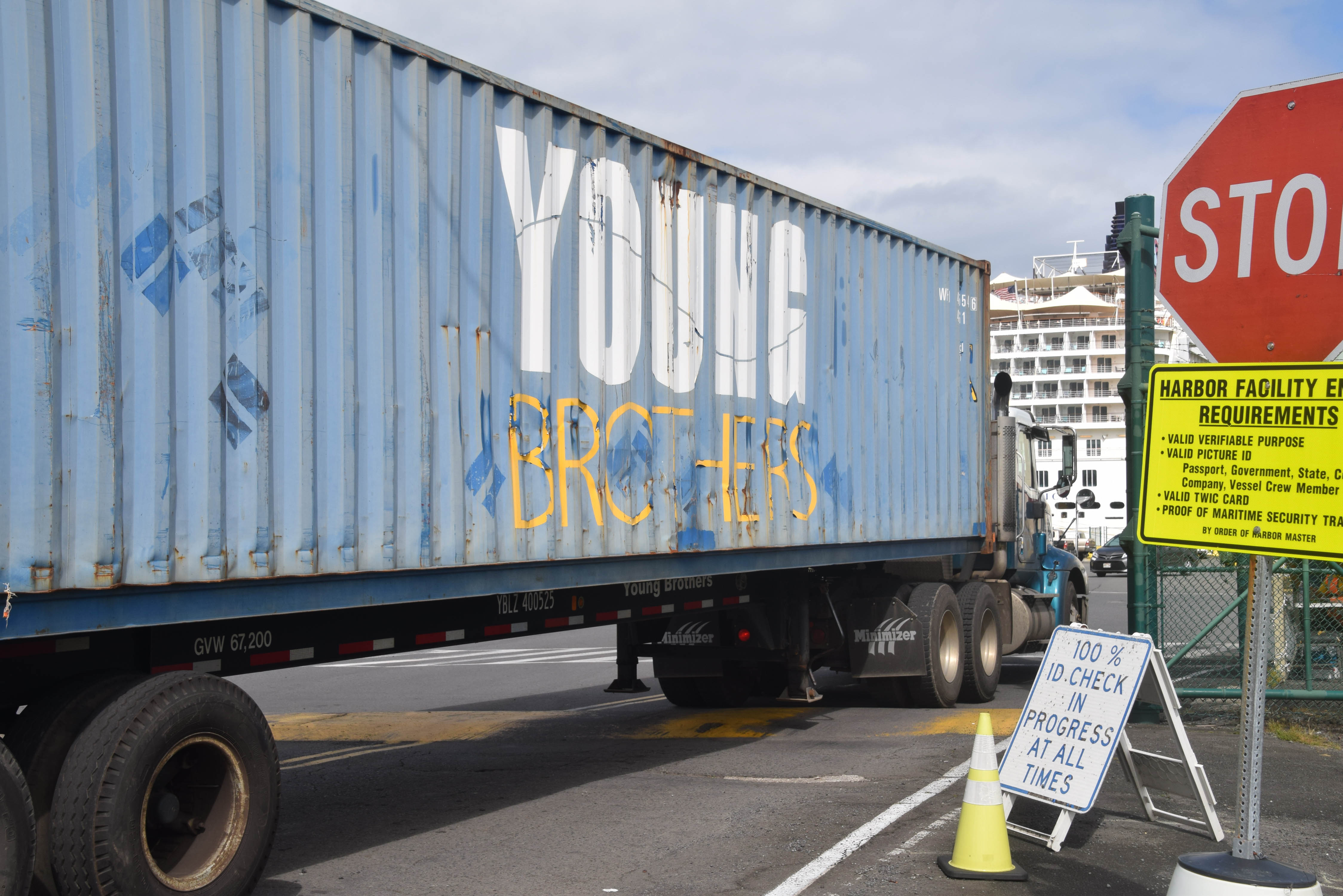 A Young Brothers Hawaii truck enters the Port of Hilo site, with the Pride of America cruise ship in the back